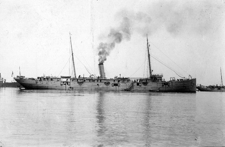 USS Yosemite (1892) from the Spanish-American War.